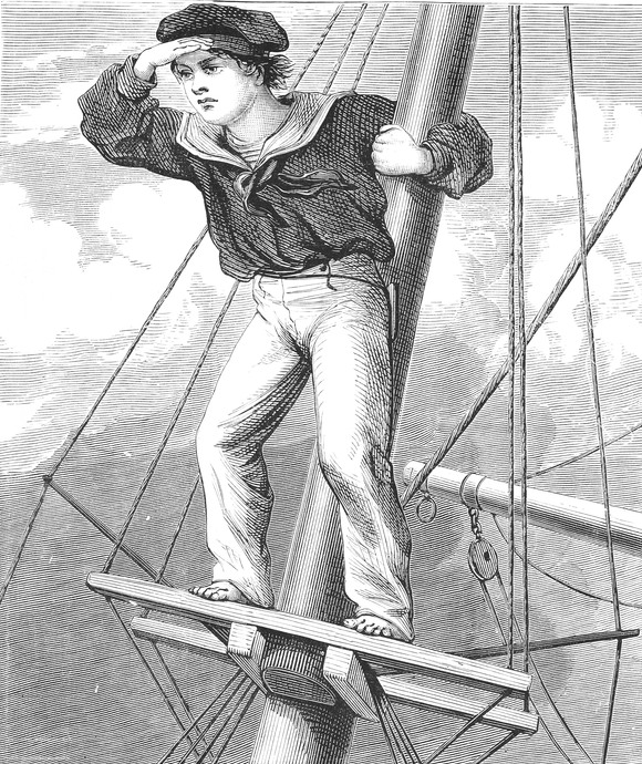 Lookout boy aloft, by Harrison Weir, Image Appears In: Pictures and Prattle for the Nursery, Date Image Published: 1880?